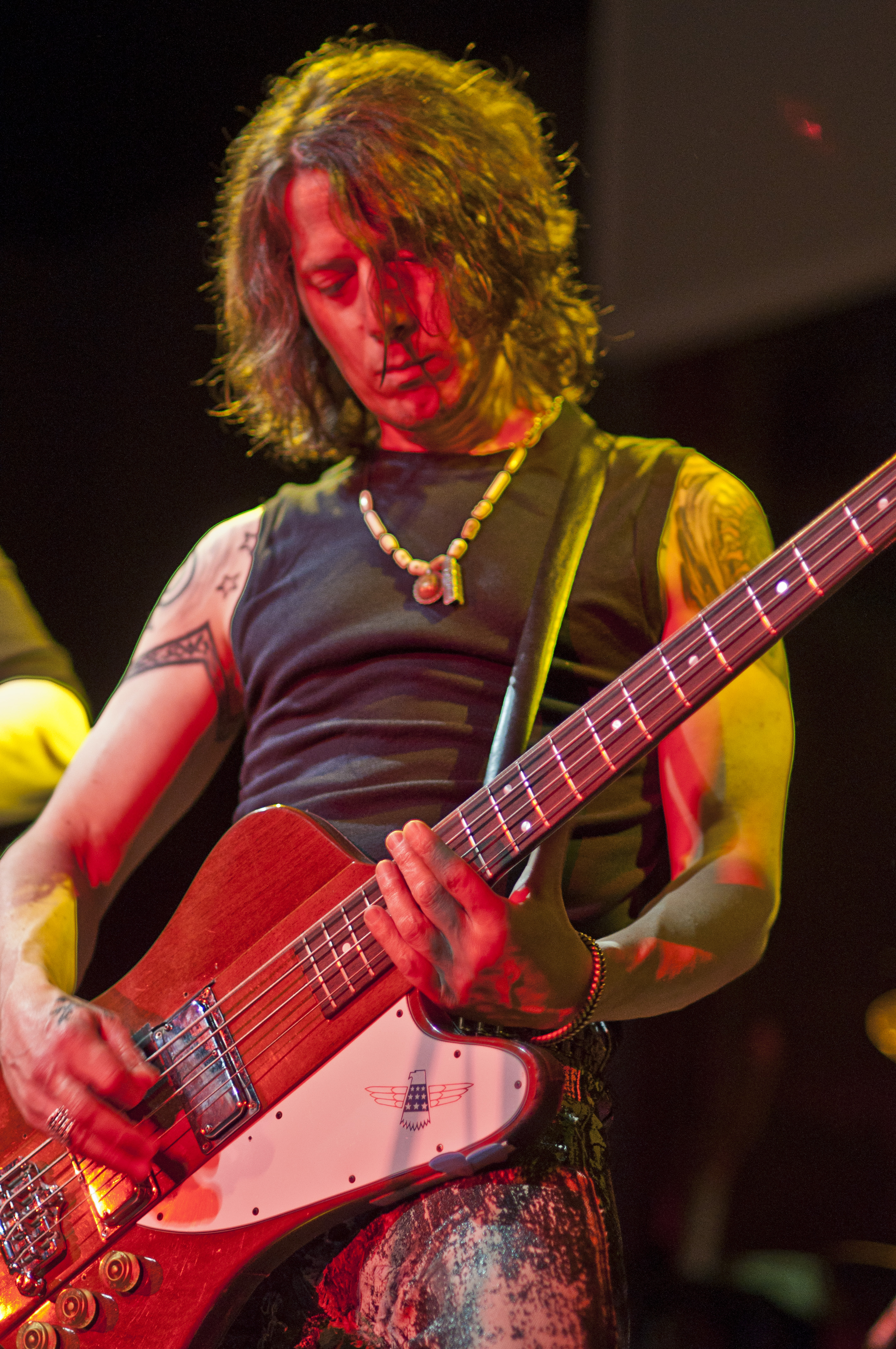 Rob De Luca live